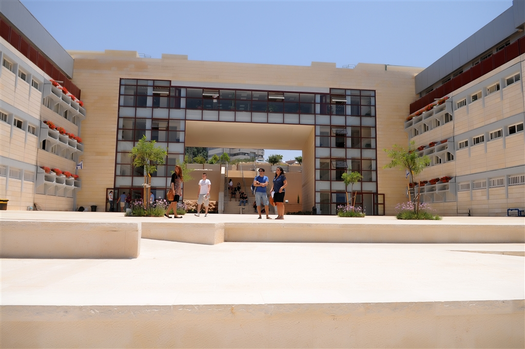 Ariel university campus